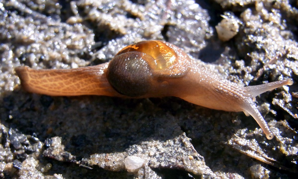 Snail, An approximately 1 inch (2.5 cm) individual of Helicarion mastersi on a wet trail at the base of the rocky summit of Pigeon House Mountain. Elevation around 650 metres above sea level. Morton National Park, NSW, Australia. Identified by the Australian Museum as Helicarion mastersi. This photo appeared on the TV show "Have You Been Paying Attention?", May 23, 2016